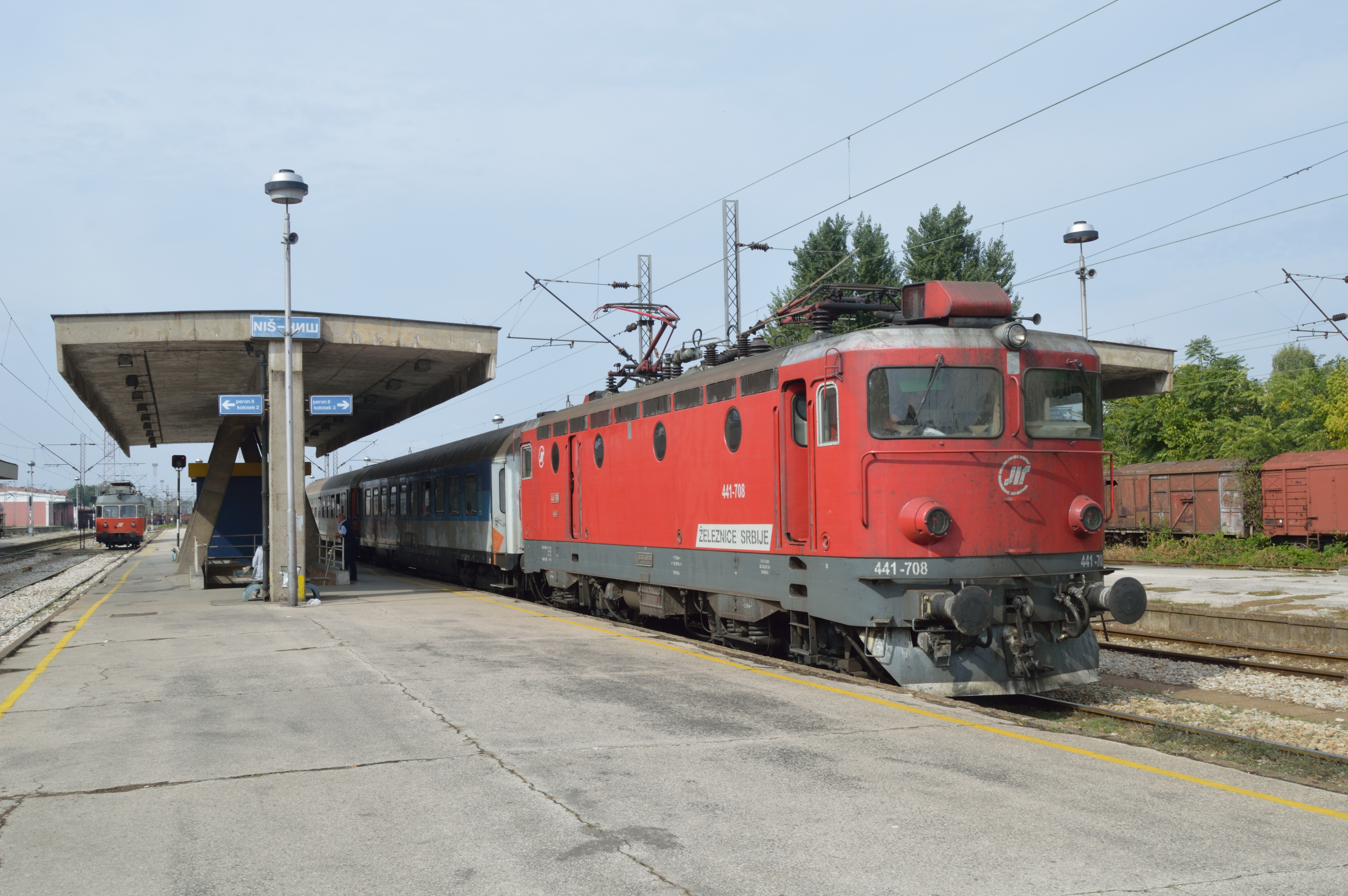 Balkans Rail Trip, Autumn 2013 - Day Five Pretty much standard traction and train composition on services on the electrified lines in Serbia. Most trains run around as load two which at times does fill to full and standing capacity. Again the age old situation of a shortage of serviceable stock is the main reason. On 27 September 2013 with the sun appearing first time after a cloudy and wet start to the day, 441.708 is the haulage for train 2950,11:05 Niš to Palanka.